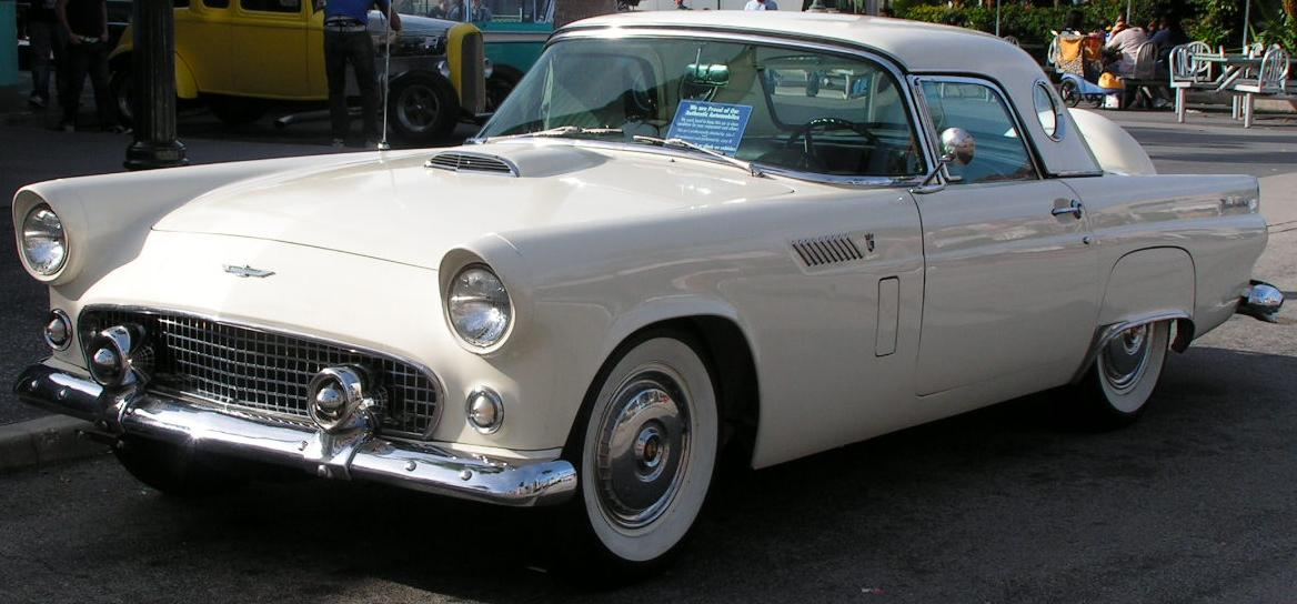 1956 Ford Thunderbird photographed @ Universal Studios Orlando.